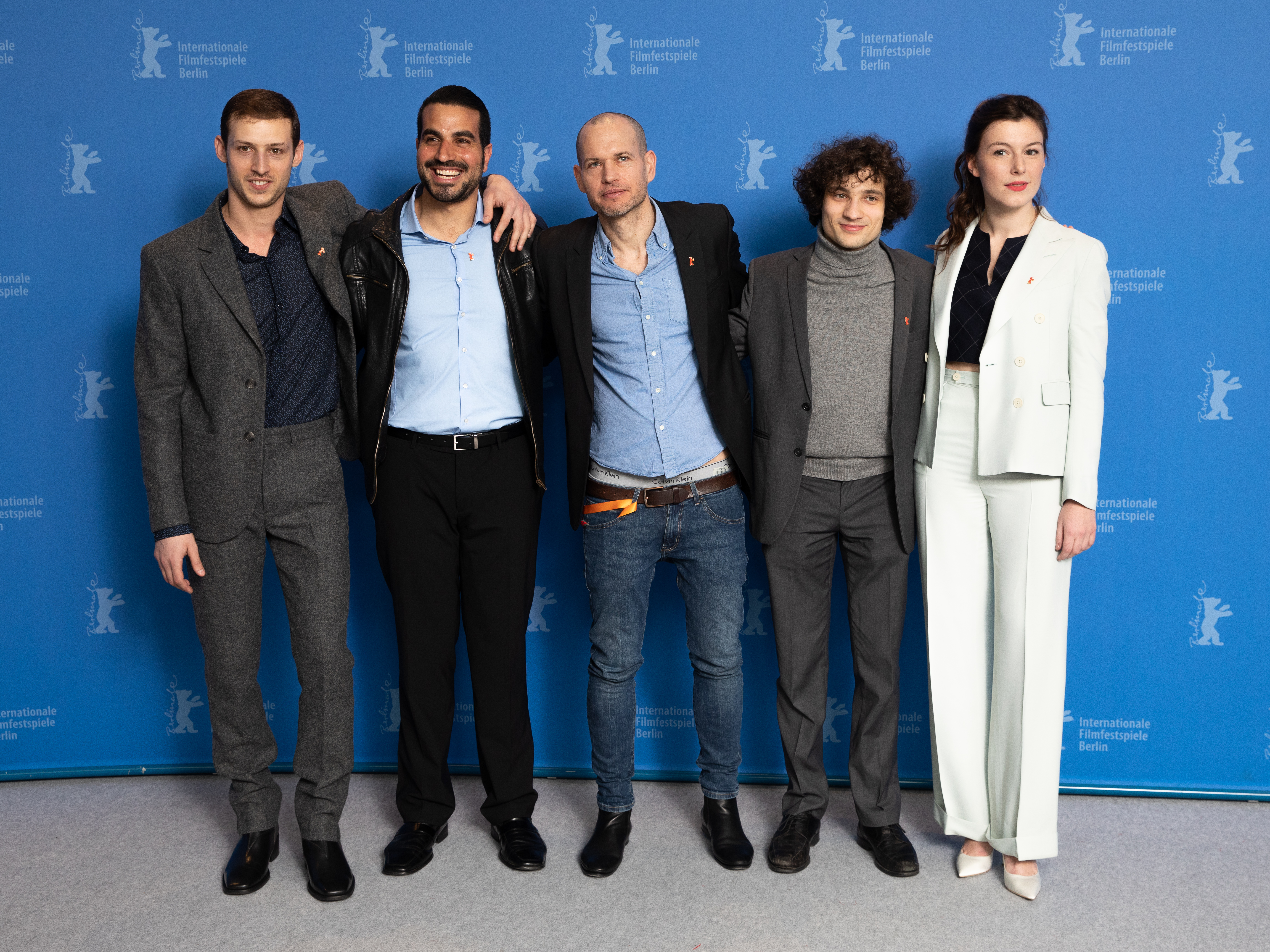 Director and cast of 'Synonyms' at the Berlinale 2019